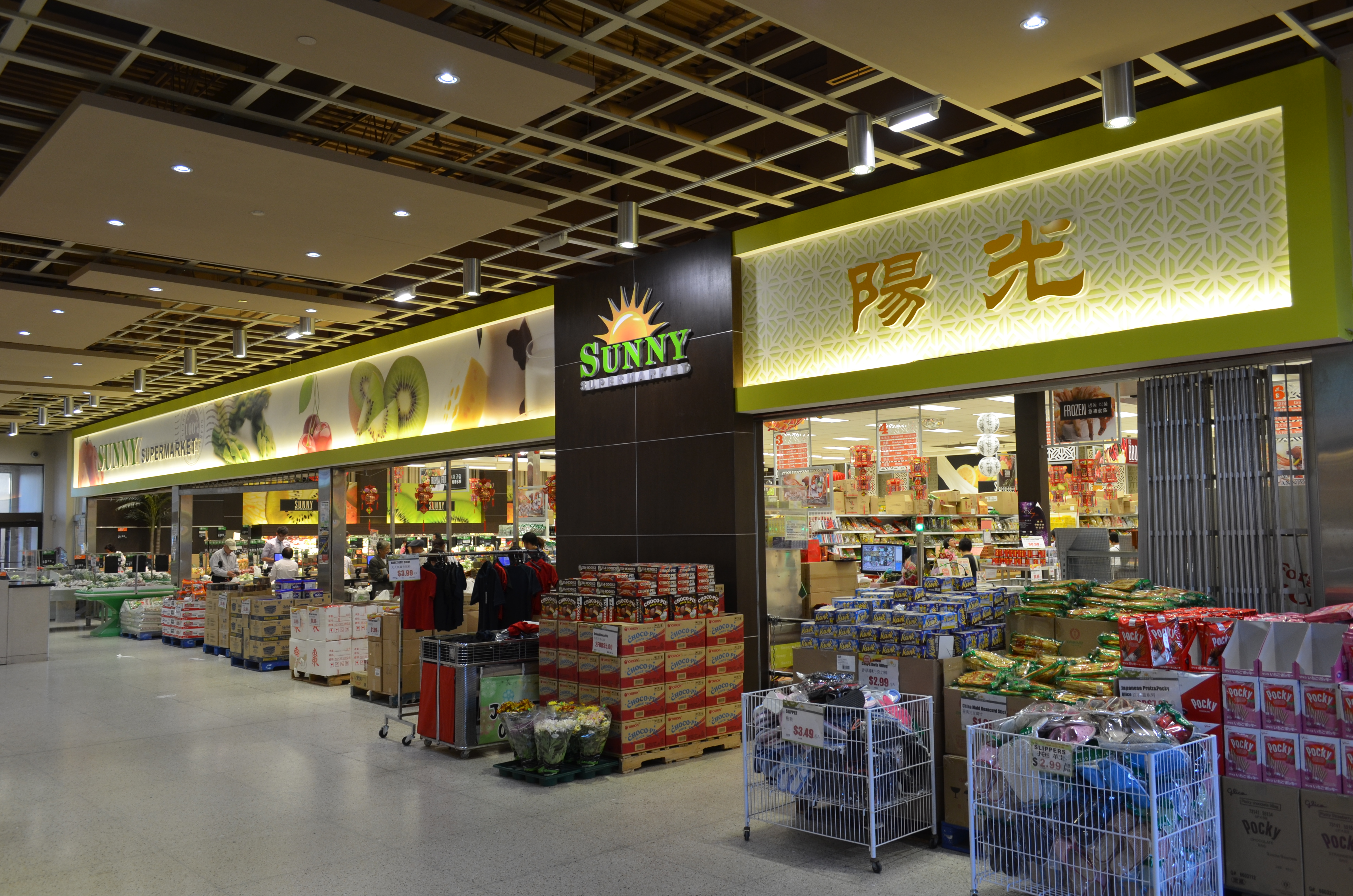 Sunny Supermarket - 115 Ravel Rd, North York, Ontario